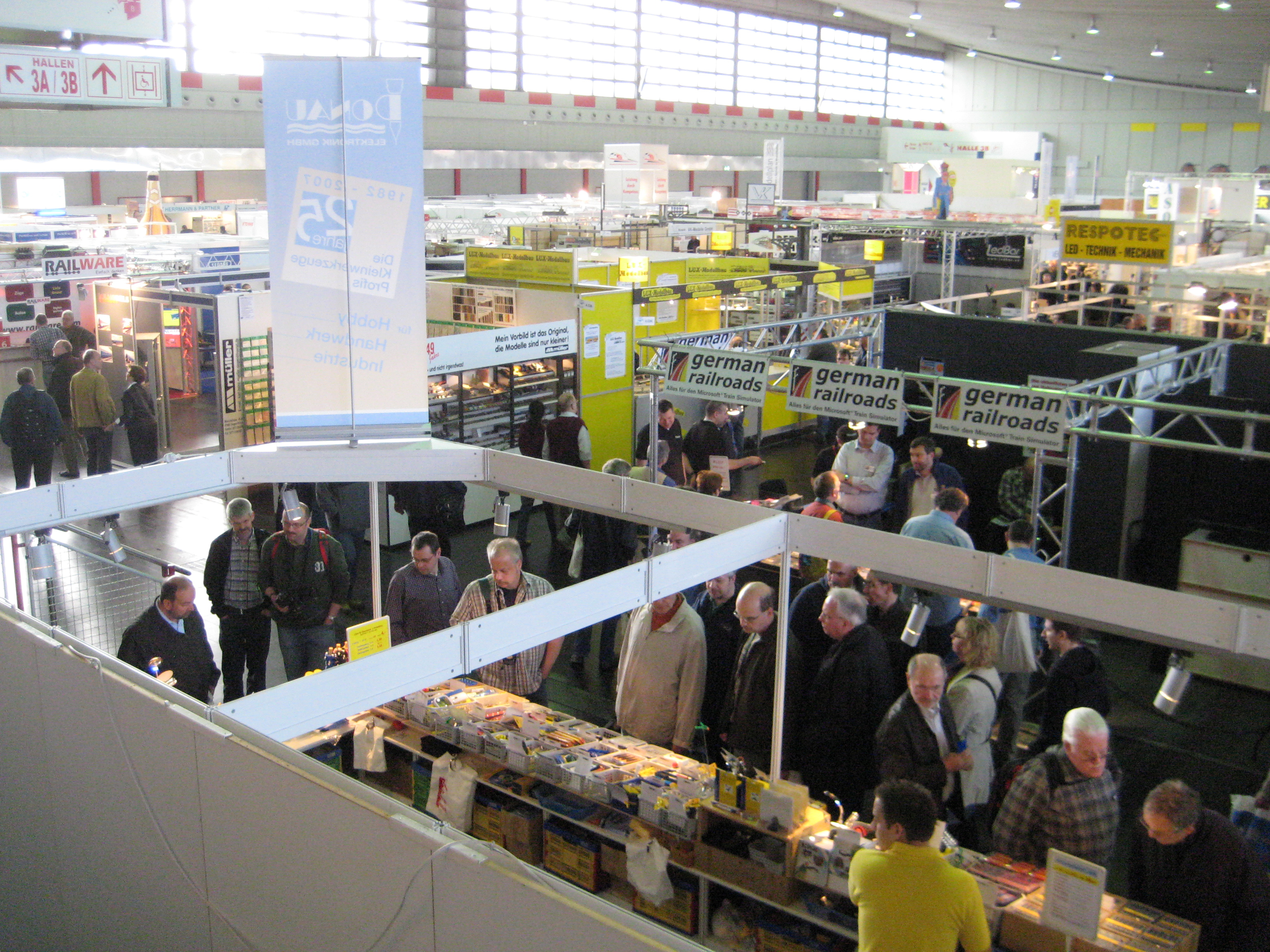 Intermodellbau 2009 in Westfalenhalle Dortmund